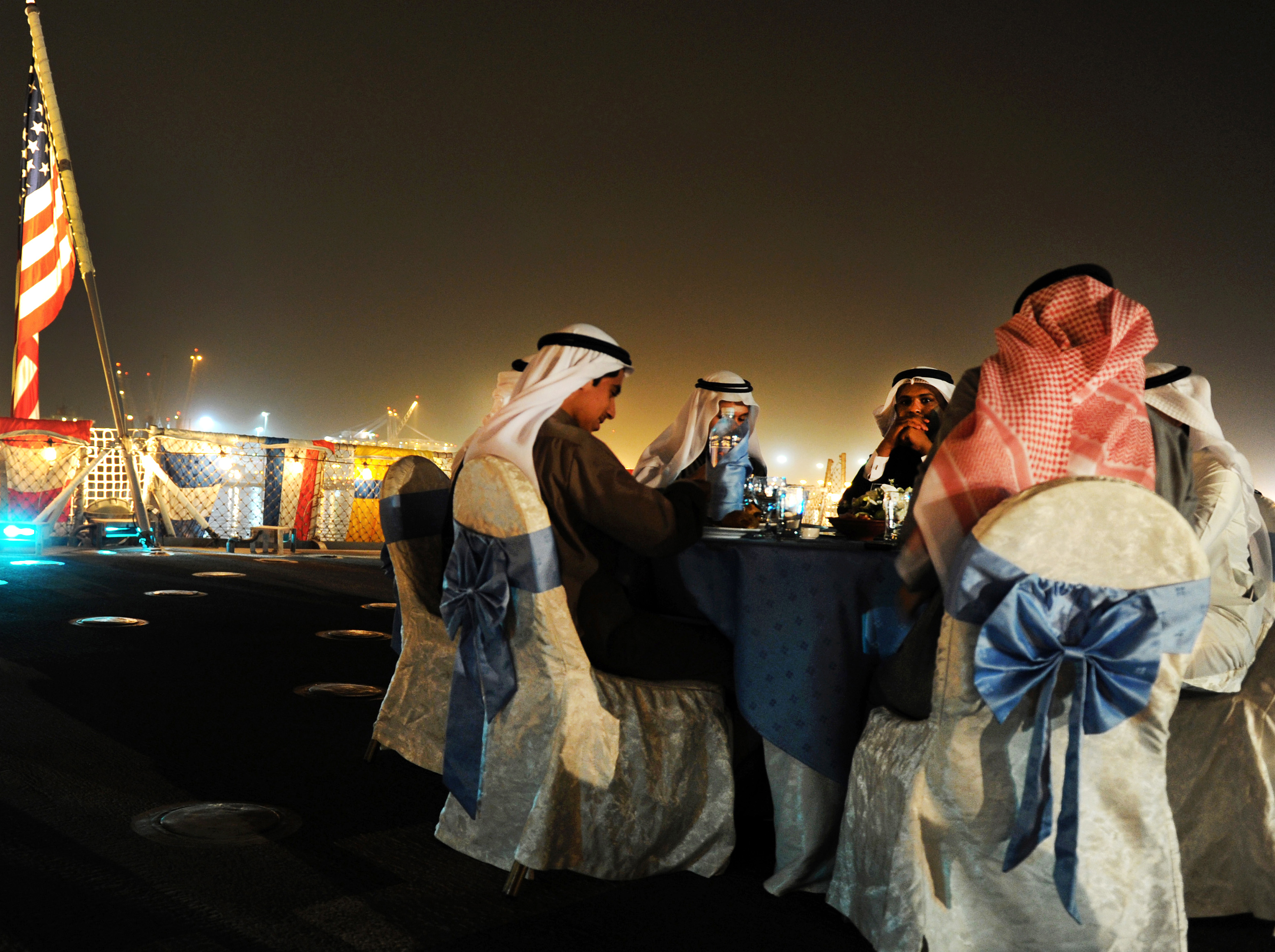 Kuwaiti citizens eat dinner on board amphibious dock landing ship USS Carter Hall, at the Port of Shuwaikh, in Kuwait, Feb. 27, 2011. They are celebrating Kuwait’s 50 years of independence and 20 years of liberation.